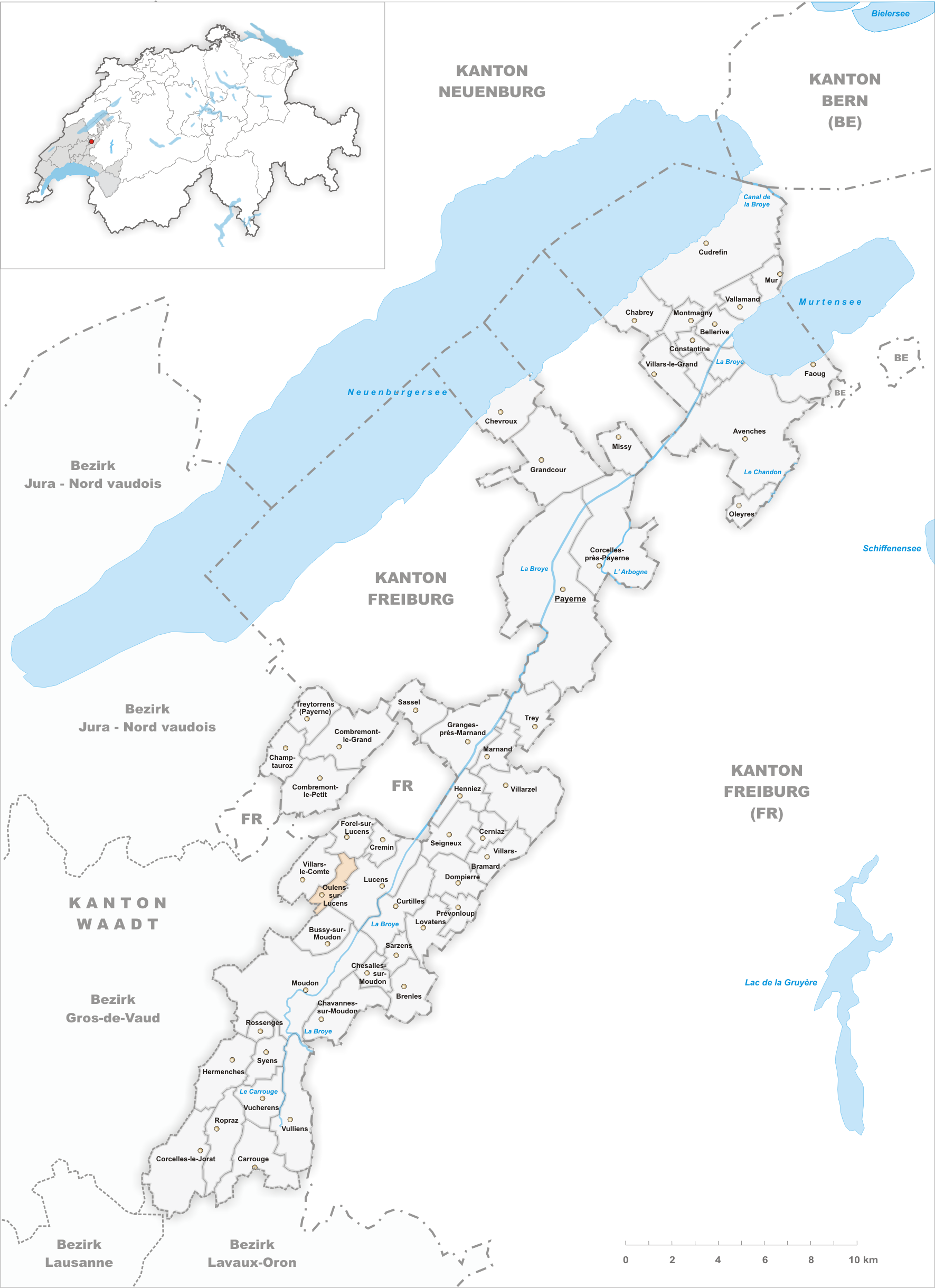 Municipality Oulens-sur-Lucens